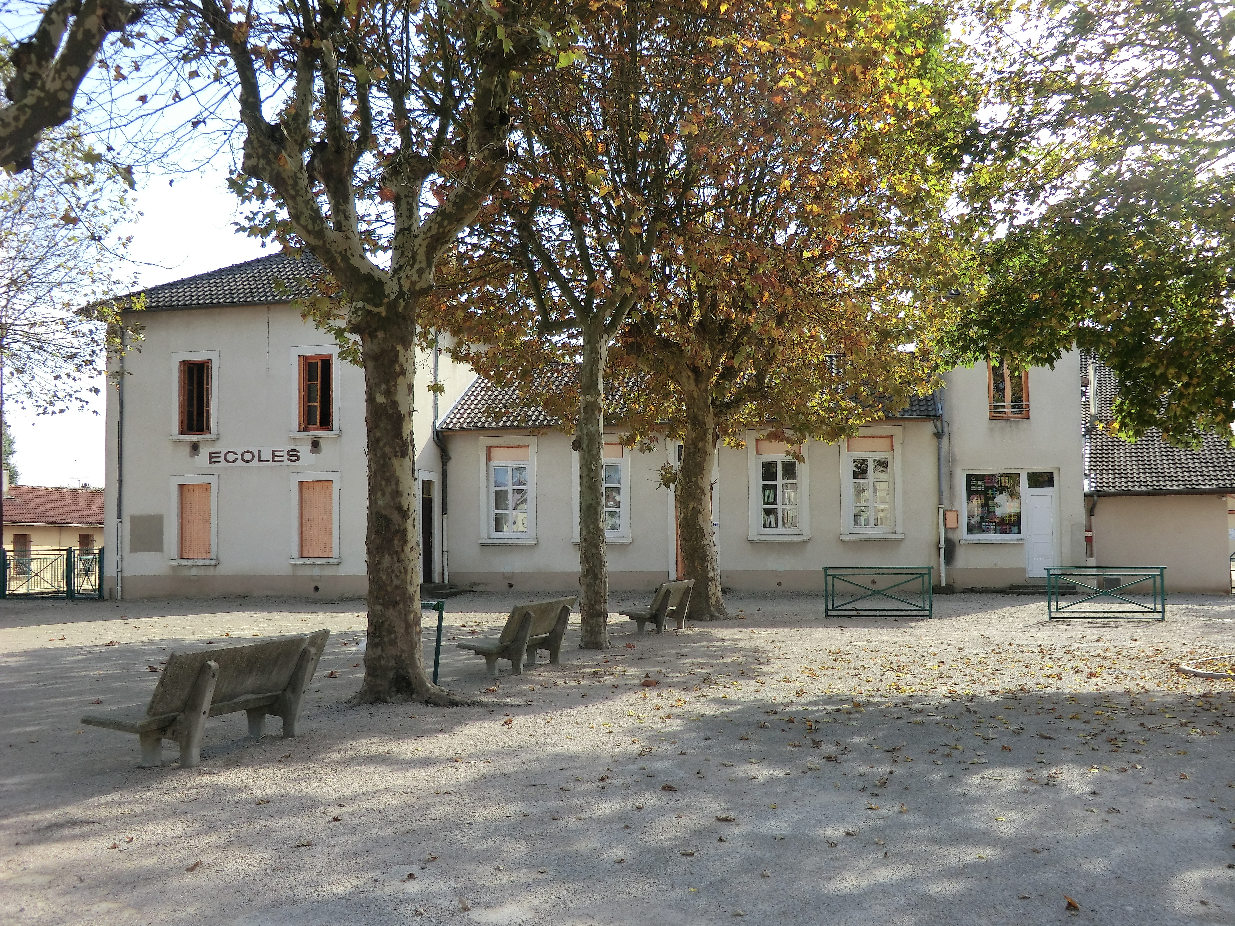 School of Niévroz.